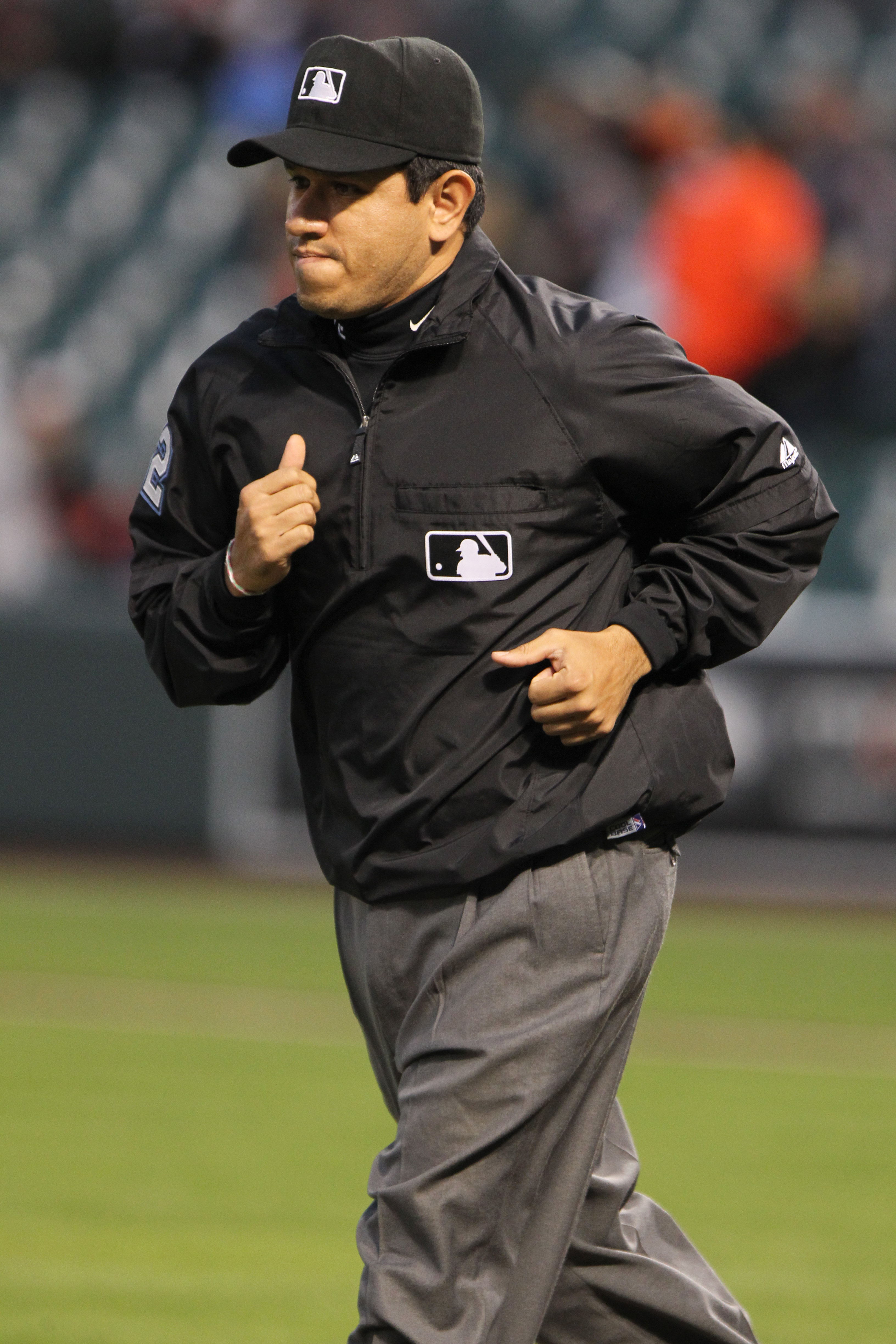 Angels at Orioles September 16, 2011